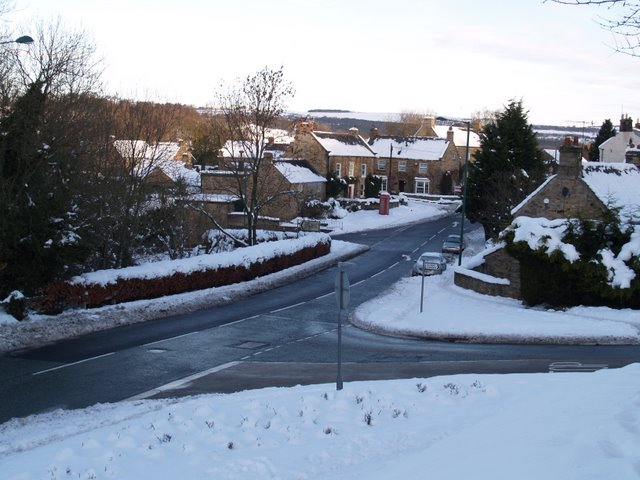 B6309 Staggered Crossroads at Ebchester